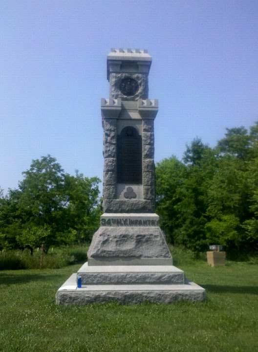 34th New York Infantry Monument Dedicated: September 17, 1902 Location: Confederate Avenue behind (West) of the Dunker Church Monument Text: THIRTY-FOURTH REGIMENT N.Y.S.V. Col. James A. Suiter Commanding Enlisted under President Lincoln's Call, issued April 15, 1861, for 75,000 men, to serve two years. Mustered into the State service May 1, 1861 Mustered into the United States service June 15, 1861 Mustered out June 30, 1863 First Brigade Second Division Second Corps The surviving members of the Regiment, aided by the County of Herkimer, and the State of New York, have erected this monument, to the memory of the gallant men who fell on this and other Historic fields. The dead on this field were 43 and the wounded 74.